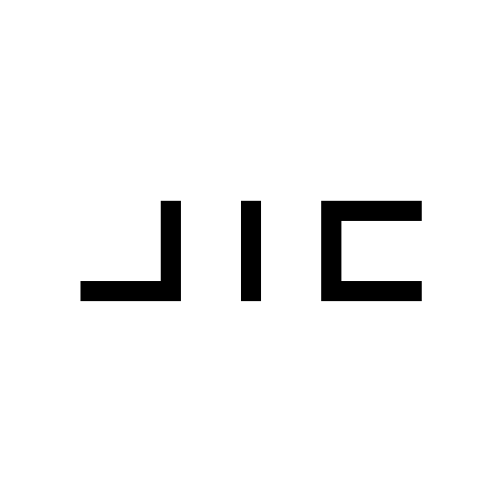 logo of JIC - South Moravian Innovation Centre, Czech Republic